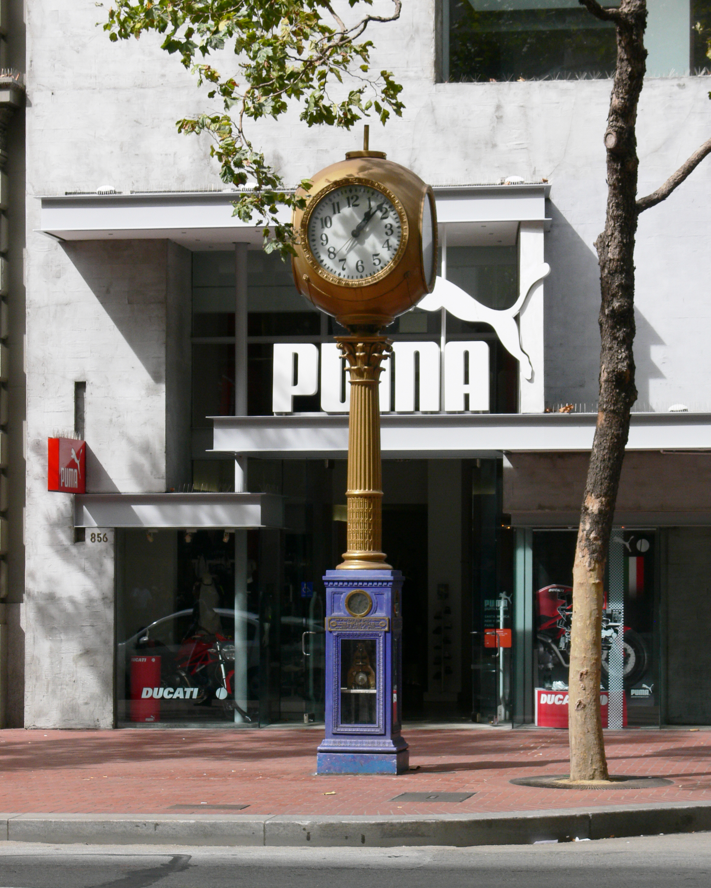 Public clock in front of the Puma Store, 856 Market Street, San Francisco, California